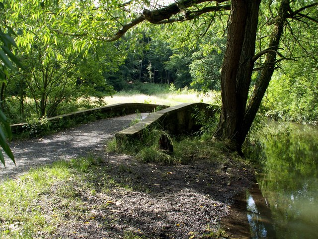 The bridge over the stream. That originates in Seckar Wood and Lawns Dike before entering Newmillerdam.